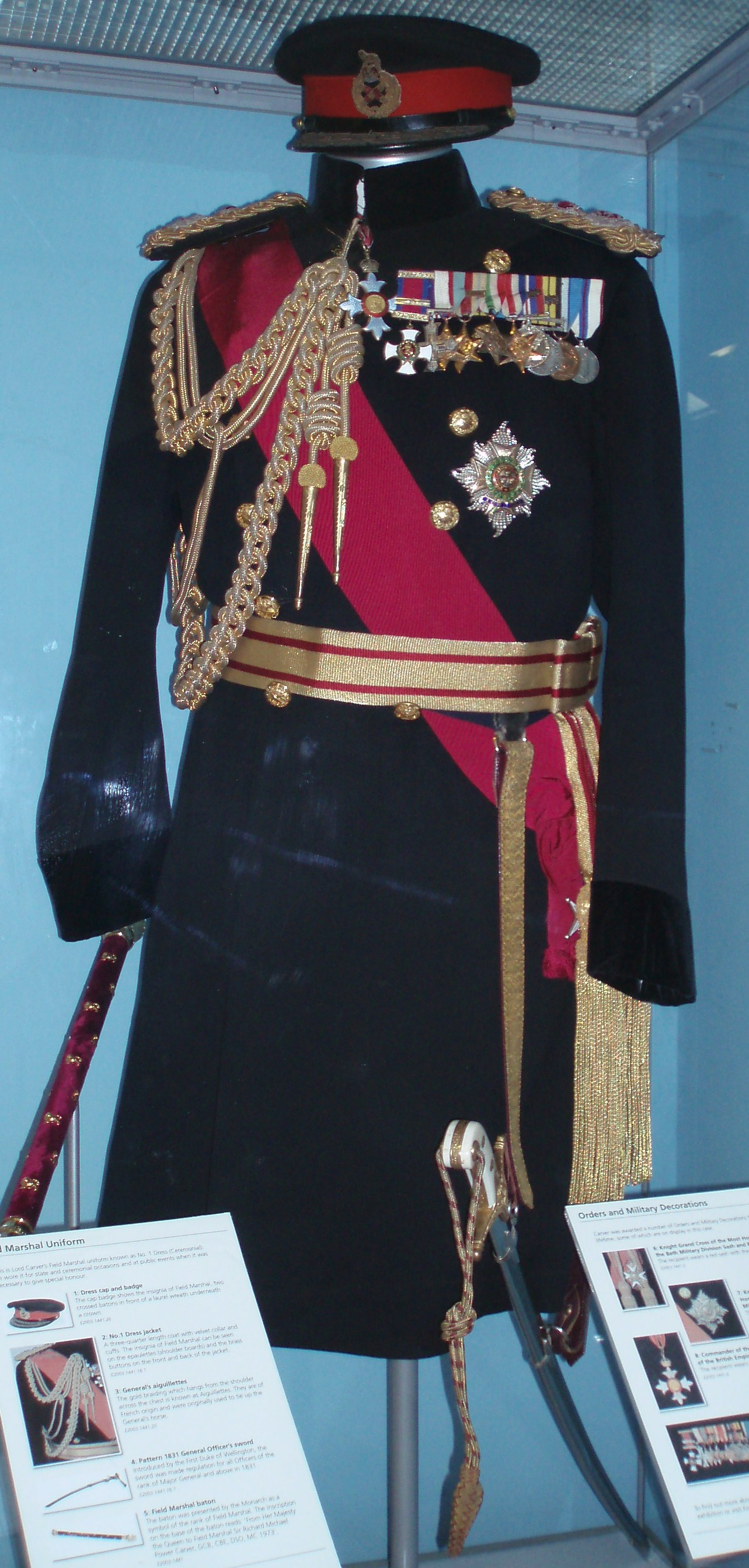 Bovington Tank Museum 347 lord carver